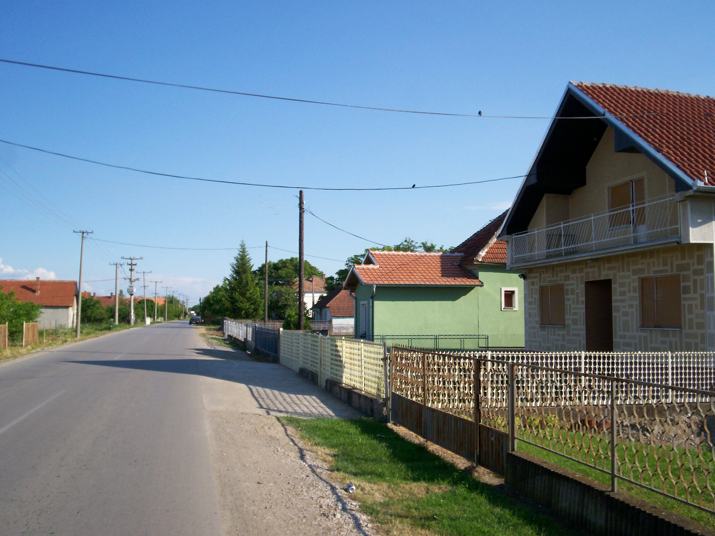 village Luzane, Serbia